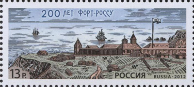 200 лет Форт-Россу